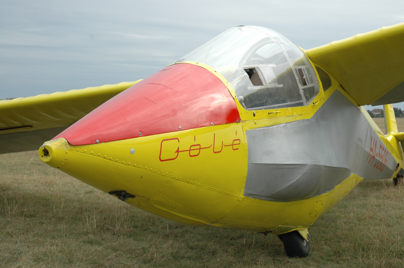 R-26SU Góbé'82 trainer glider (reg. HA-5506)